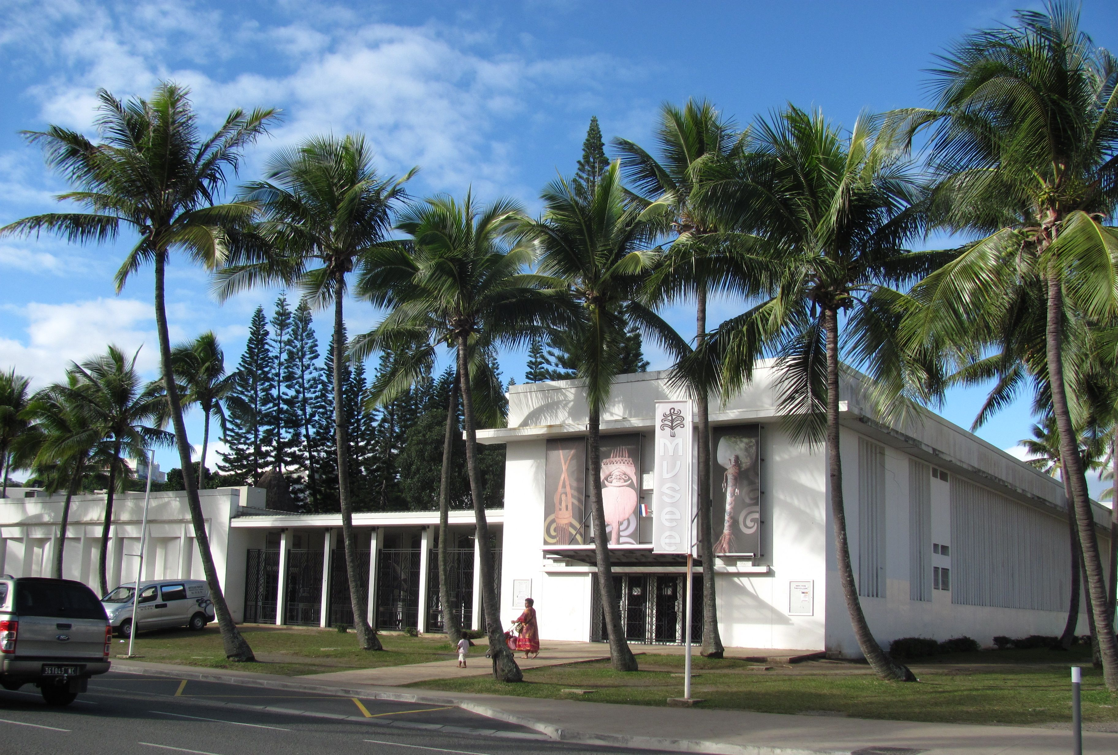 Museum of New Caledonia, Nouméa, New Caledonia